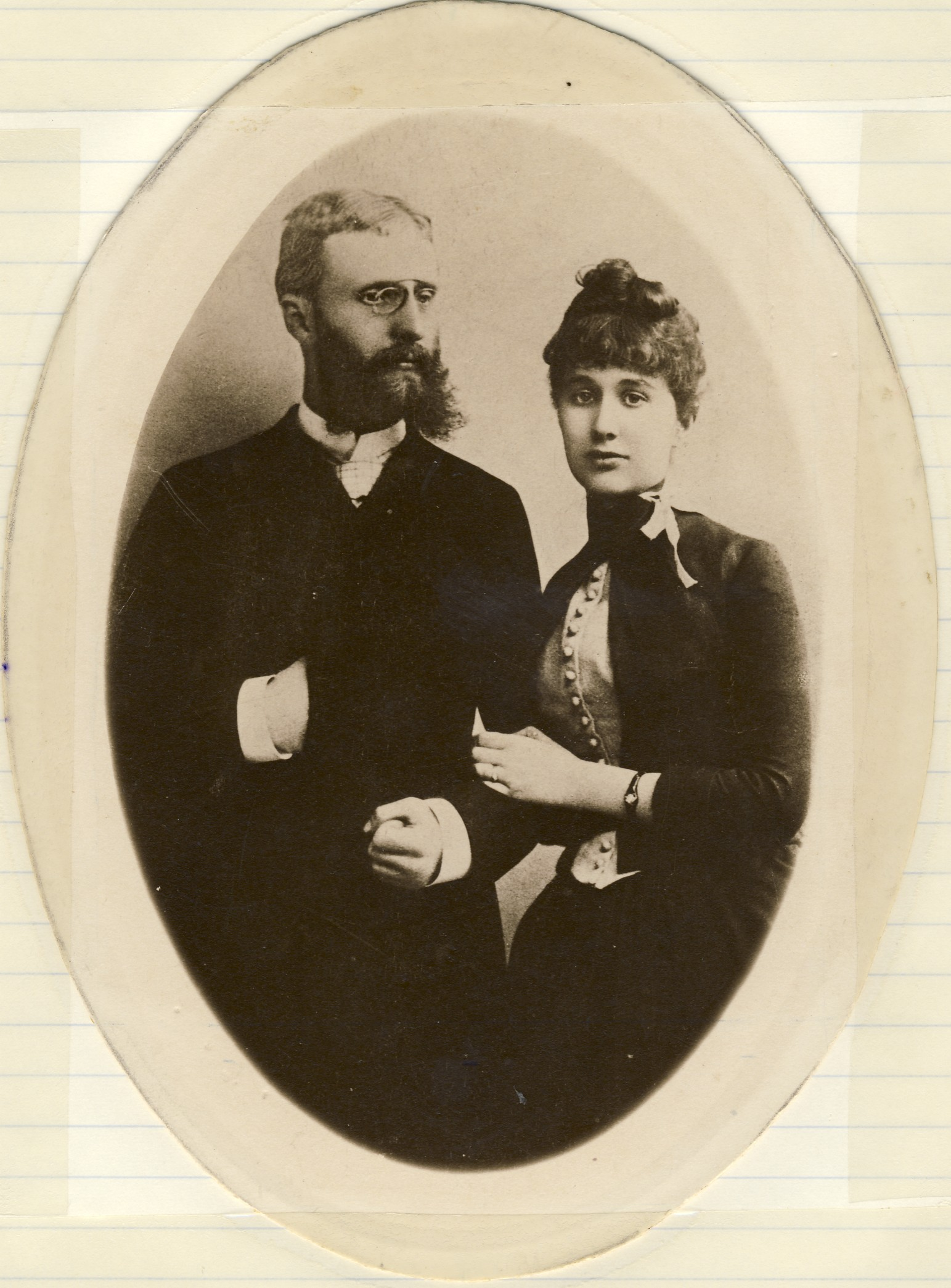 Matrimonial picture of the just married Count Hugo II Logothetti with Frieda Baroness Zwiedinek von Südenhorst